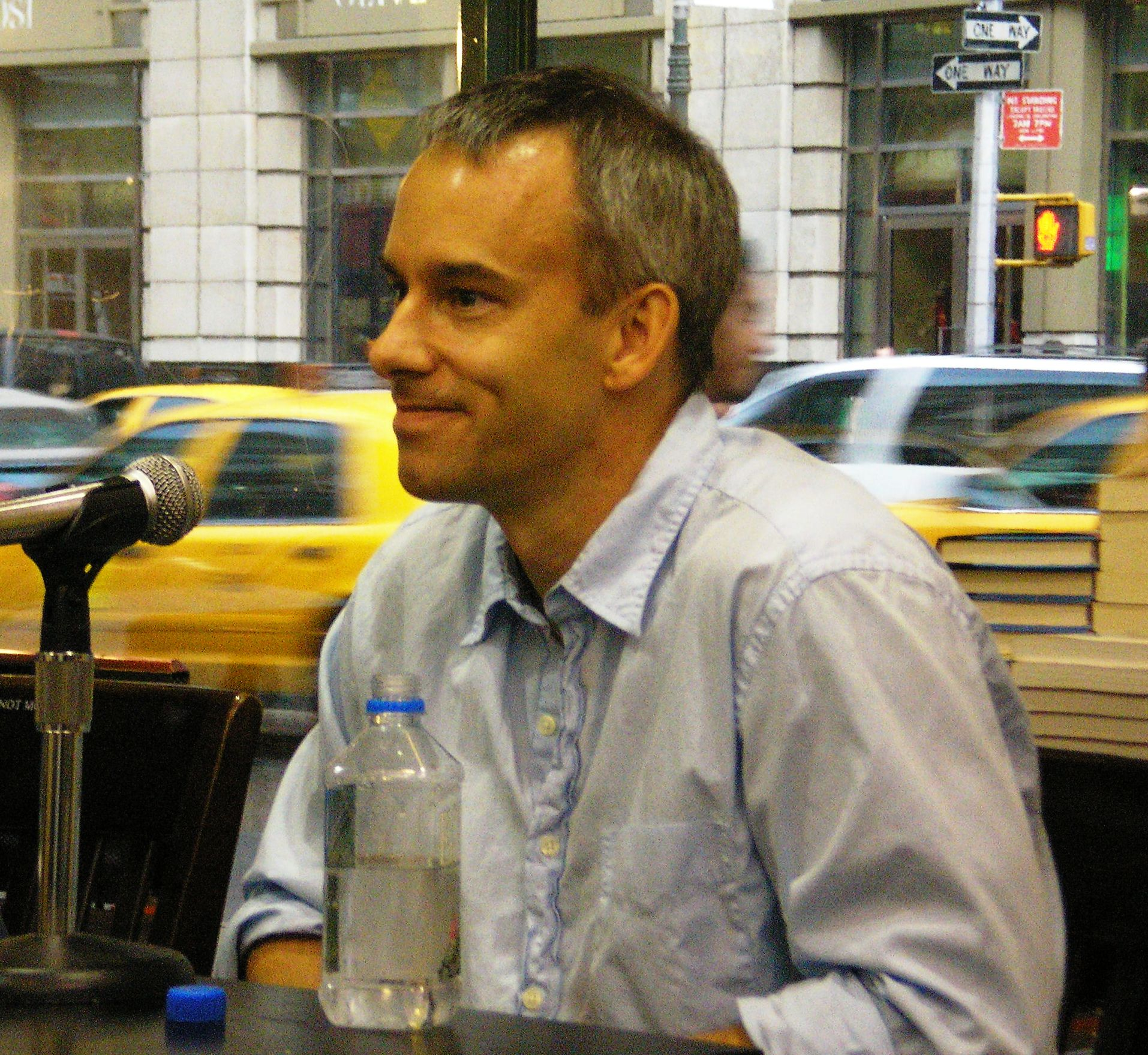 Author is me, David Shankbone. 24 August 2006. Scott Smith in New York.7